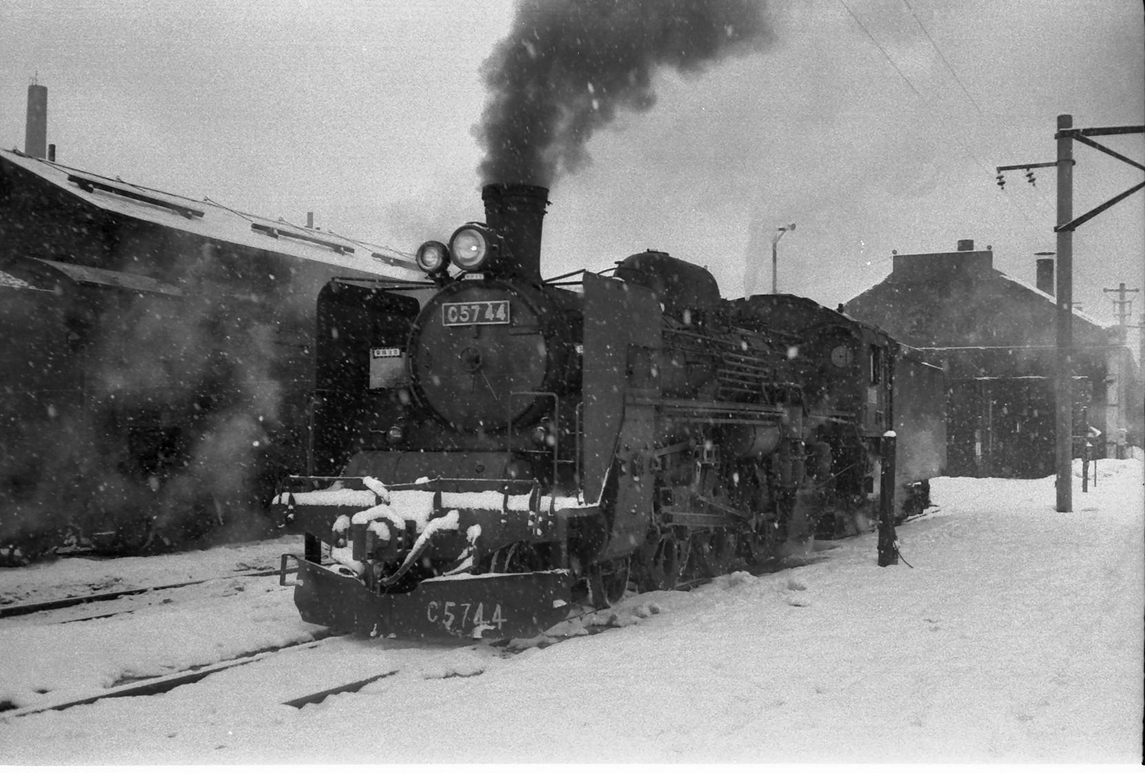 C57 44 at Iwamizawa locomotive yard. Taken in 1974.